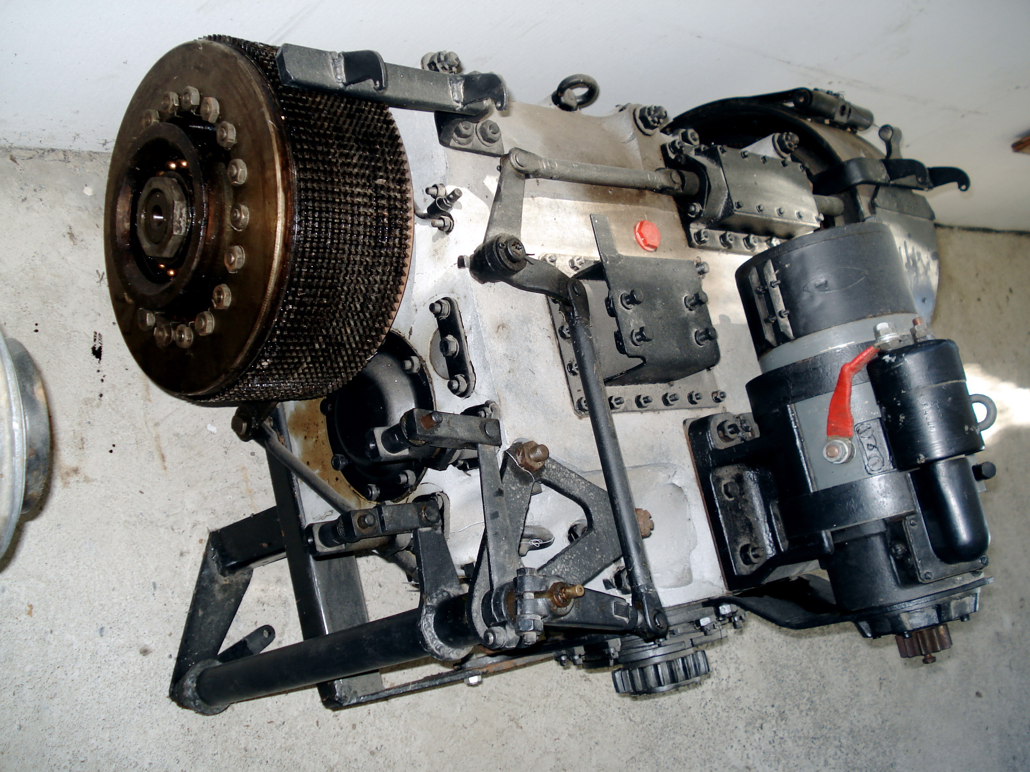 Transmission of Soviet T-34 tank displayed in Finnish Tank Museum (Panssarimuseo) in Parola. Some parts have been removed or cut to show the inner workings.